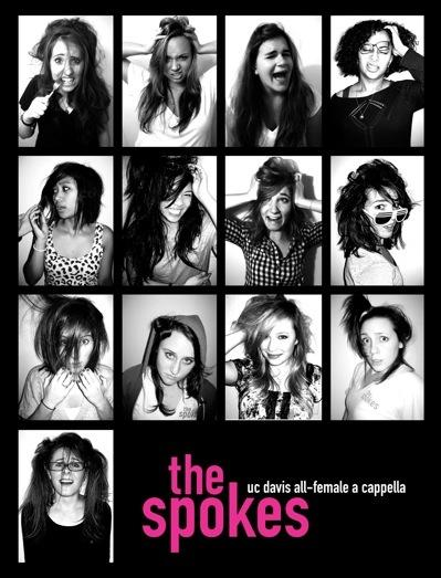 The Spokes Mugshot 2K11